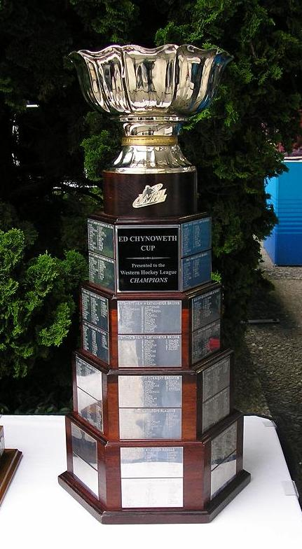 Photo I took of the WHL championship trophy, the Ed Chynoweth Cup taken at the Memorial Cup final in Vancouver.